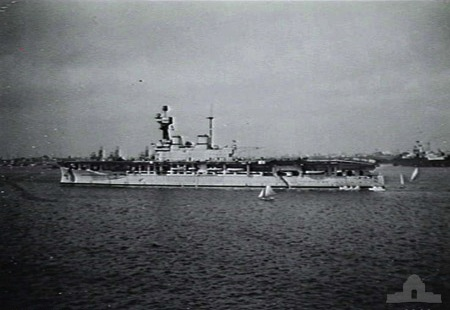 AWM Caption: ALEXANDRIA, EGYPT. 1940-07-20. PORT SIDE VIEW OF THE AIRCRAFT CARRIER HMS EAGLE. THE BATTLESHIP HMS WARSPITE IS IN THE FLOATING DOCK IN THE BACKGROUND.